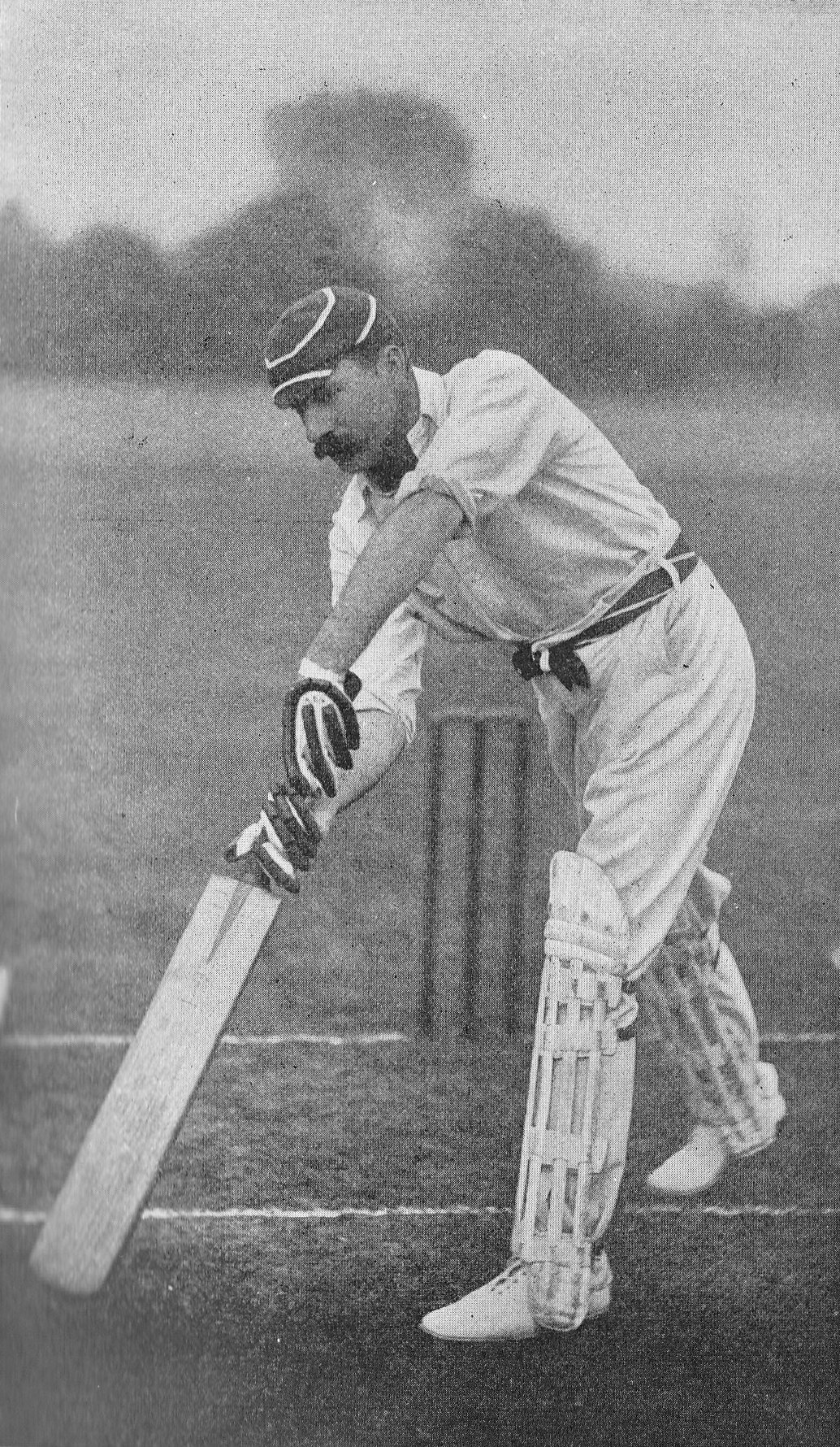 "A. E. Stoddart's forward-drive nearing the finish."